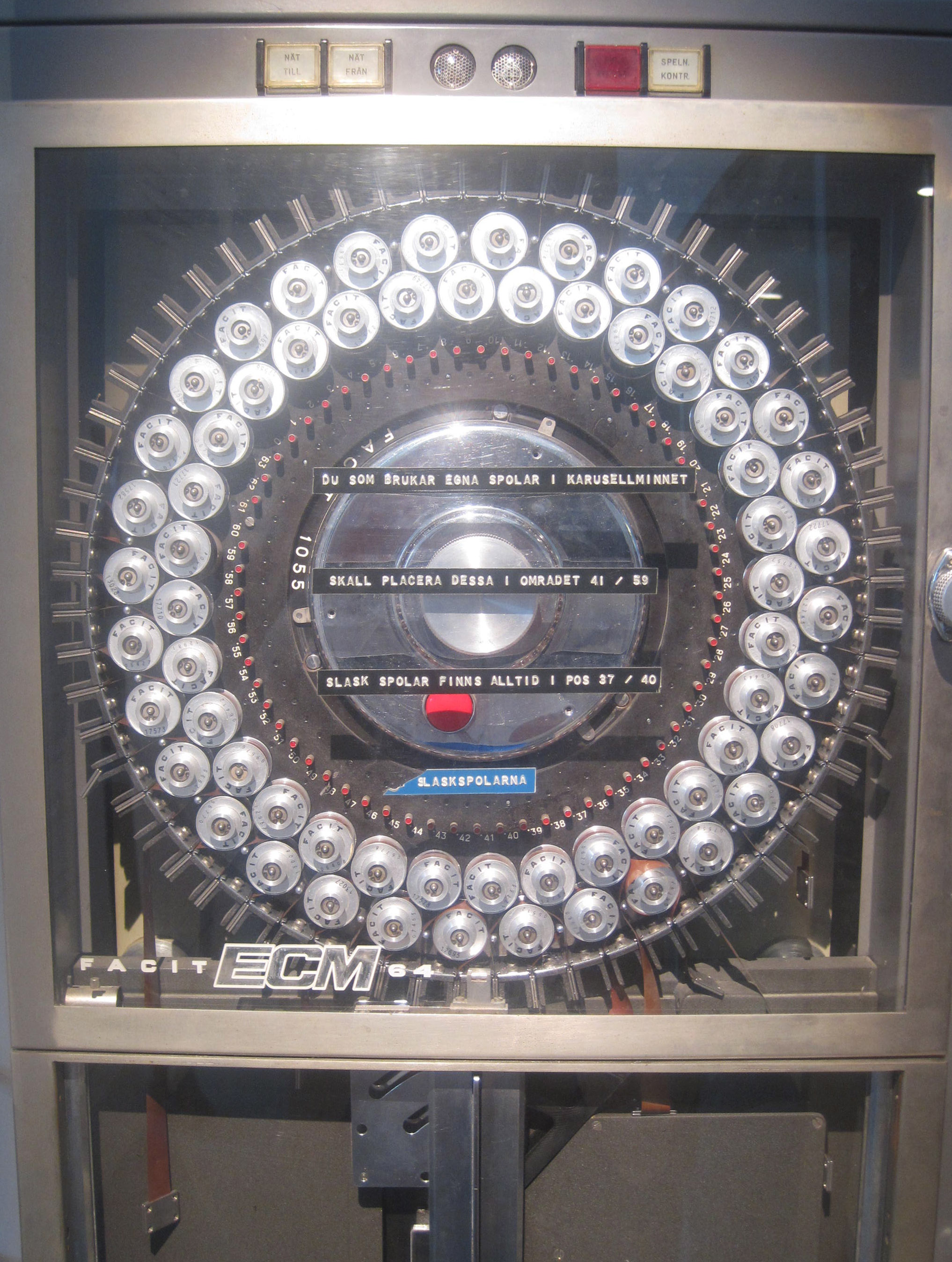 Carousel memory from SMIL, one of Sweden's earliest computers, in use at Lund University 1956-1970. The memory is today kept at the Teknikens och sjöfartens hus museum in Malmö, Sweden.